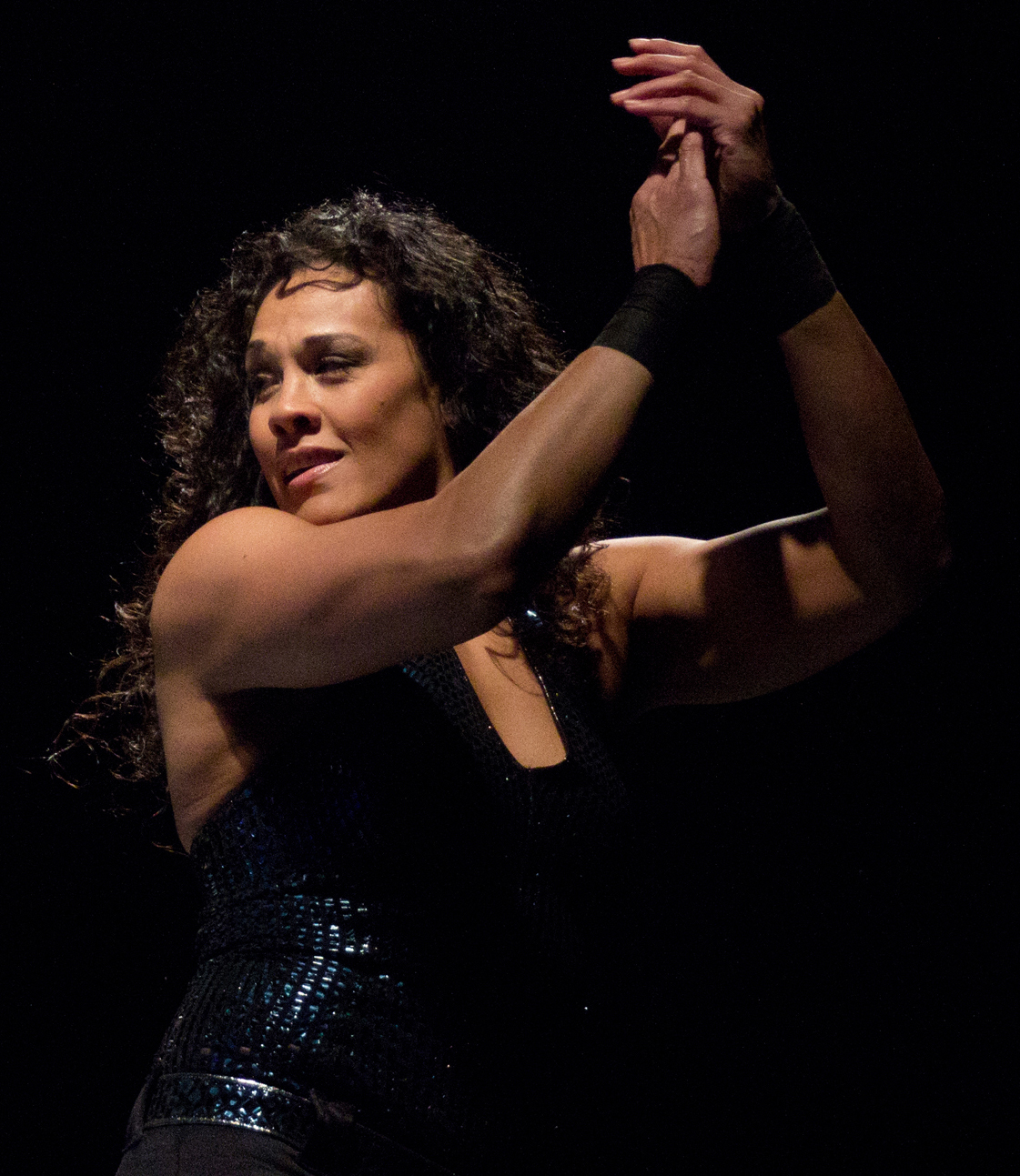 Tamina revs up the crowd. Taken January 7, 2012 during a WWE SmackDown live event in Montgomery, Alabama.